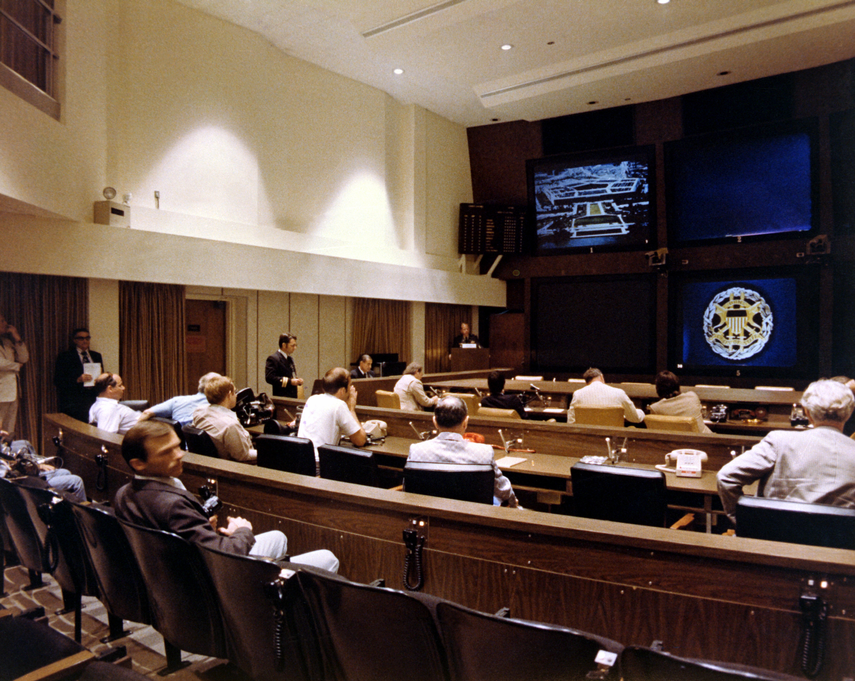 Emergency Conference Room in the National Military Command Center (NMCC).